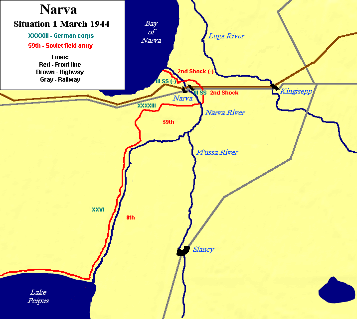 Narva, Estonia area in 1944, showing selected towns and swamps. Made with MapCreator 1.0 software by W. B. Wilson. The maps created with MapCreator 1.0 can be used in all media and require no licence. for details.